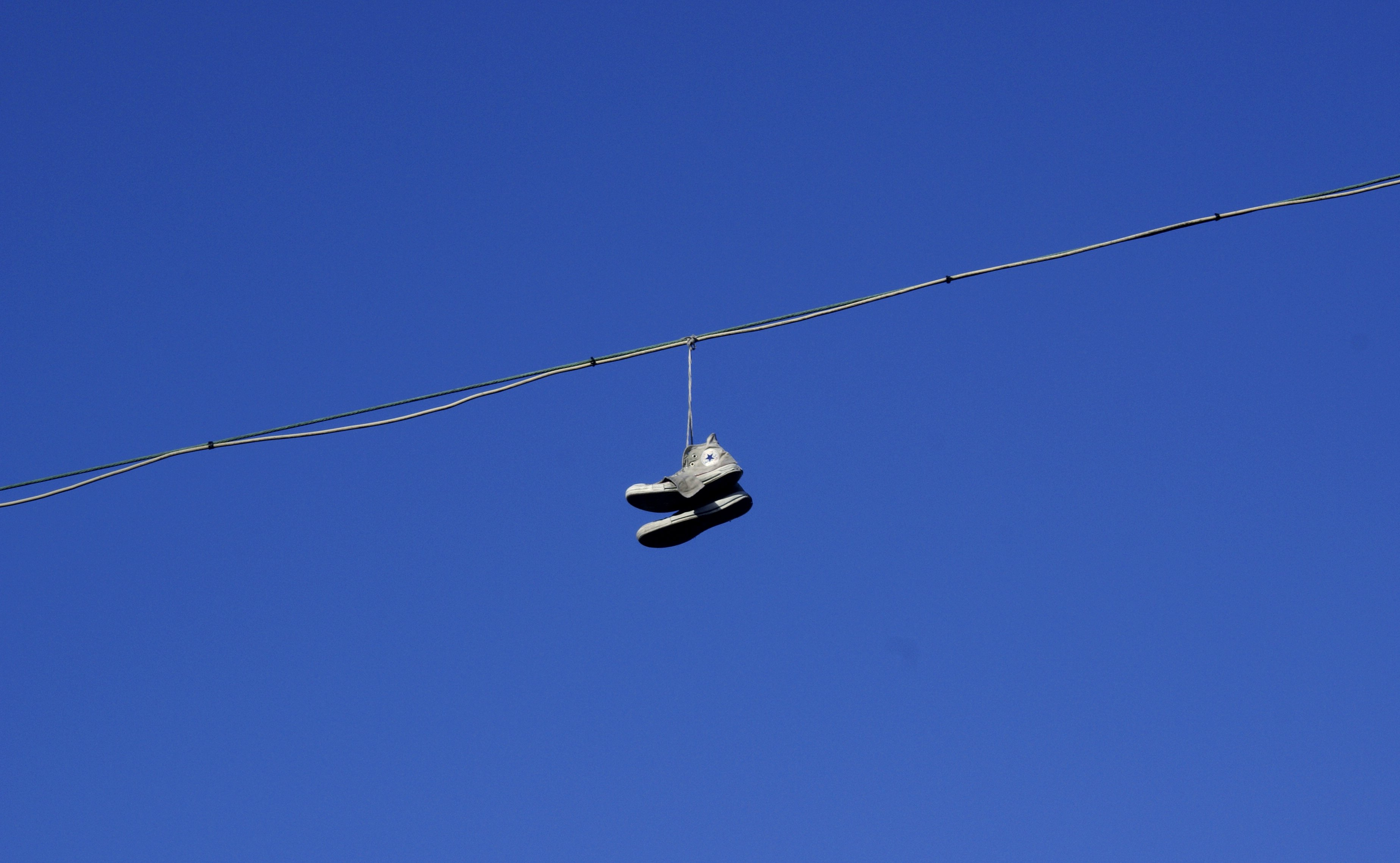 Shoes in a telephone wire in Gothenburg. See Shoe tossing.